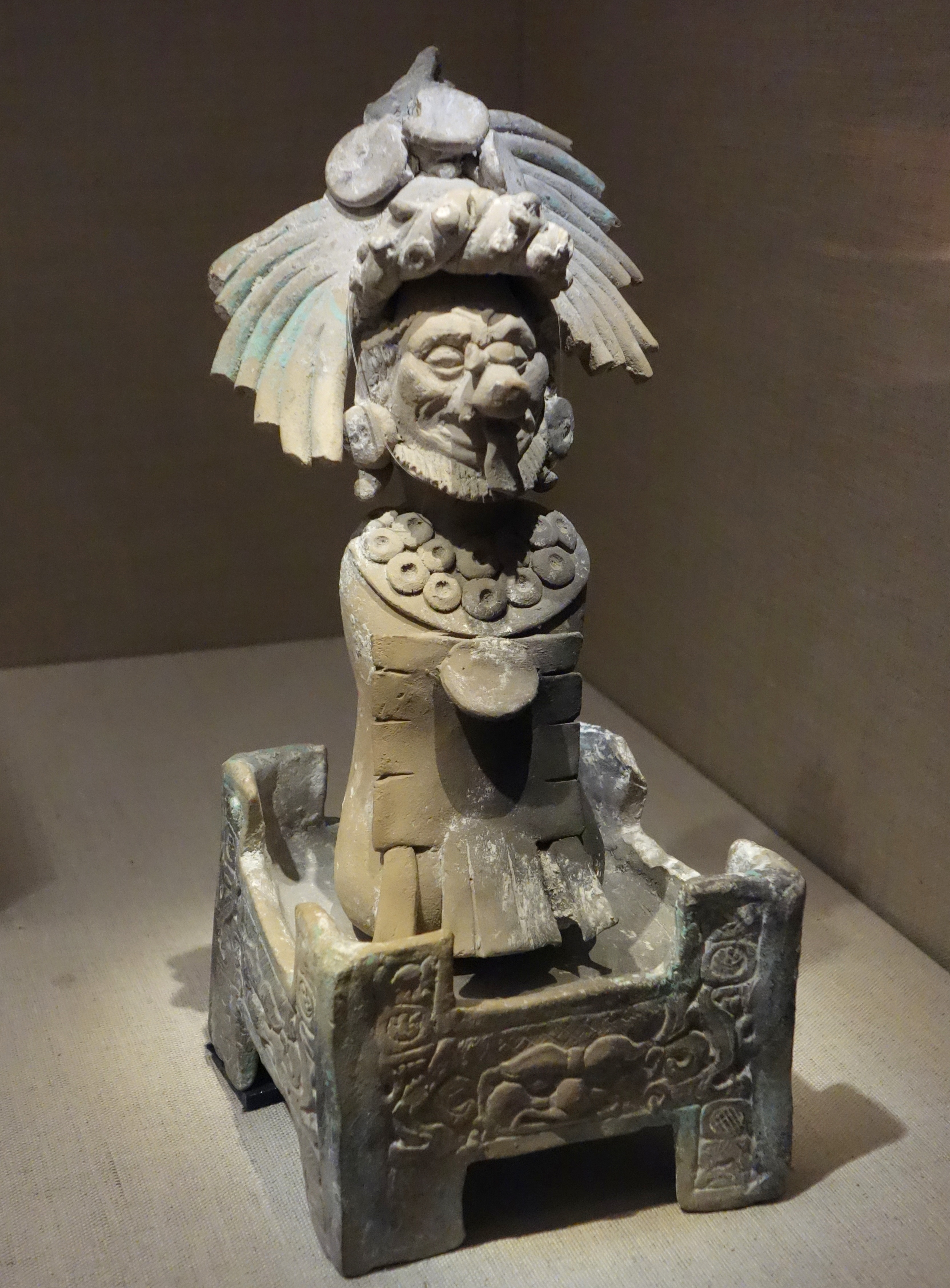 Exhibit in the De Young Museum, San Francisco, California, USA. This artwork is in the public domain because the artist died more than 70 years ago.